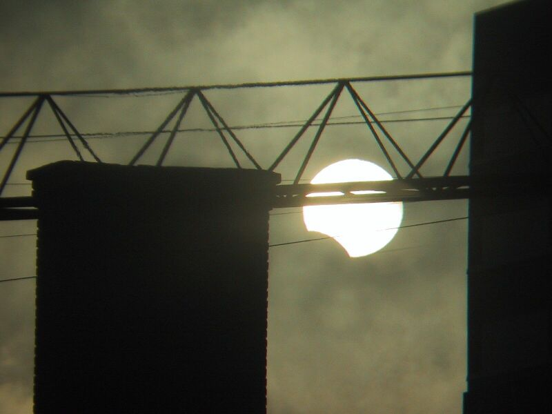 Solar eclipse of December 14, 2001, taken from Minneapolis, MN